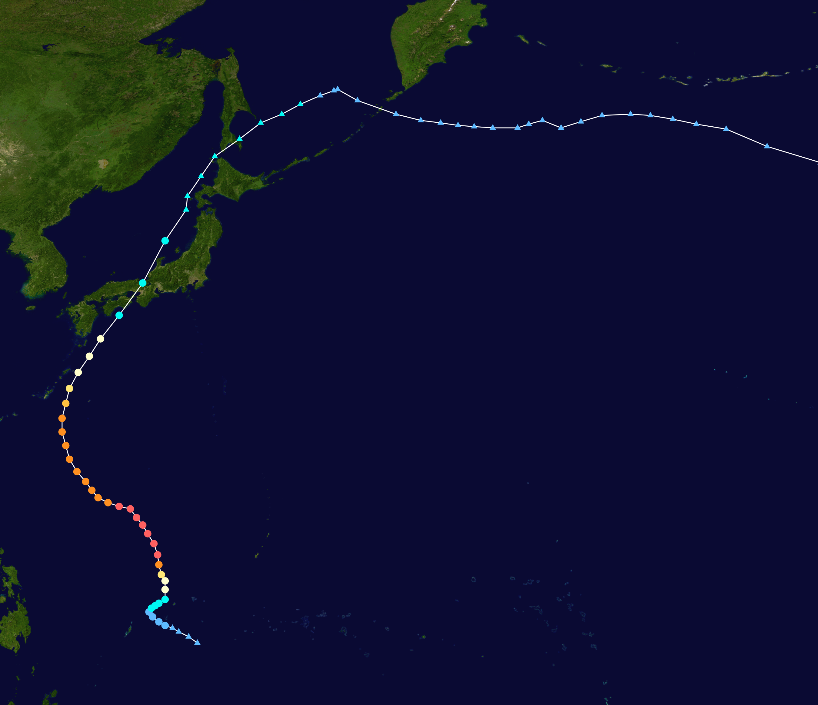 Typhoon Dianmu (2004) track. Uses the color scheme from the Saffir-Simpson Hurricane Scale.